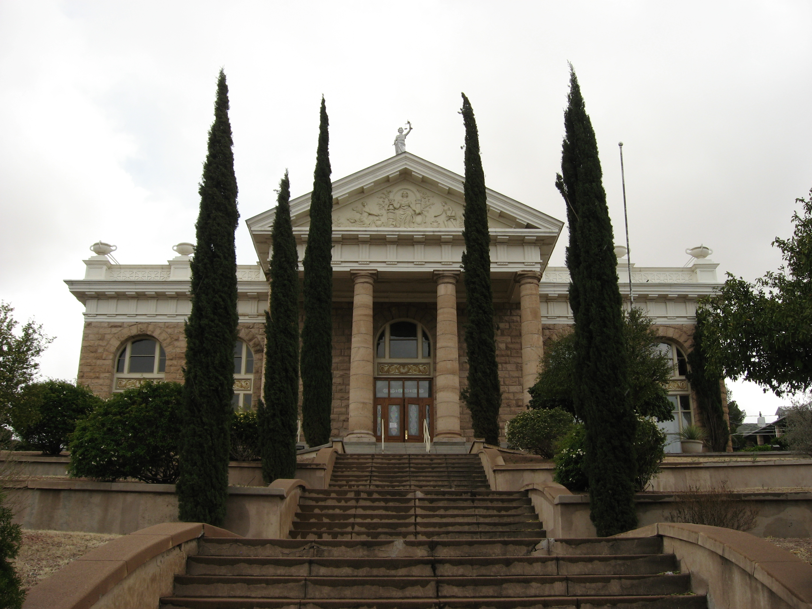 Front of the Santa Cruz County Courthouse, located at the intersection of Court and Morley Streets in downtown Nogales, Arizona, United States. Built in 1903, the courthouse is listed on the National Register of Historic Places.